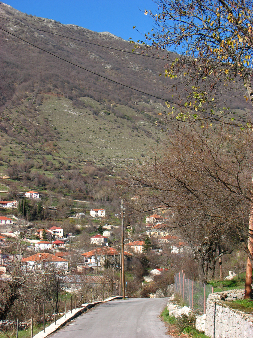 Buzova Mountain - view of the summit from Voshtina (Pogoniani). Photo near the area called Tsifliki, on the road just before the church of St. Nicholas.